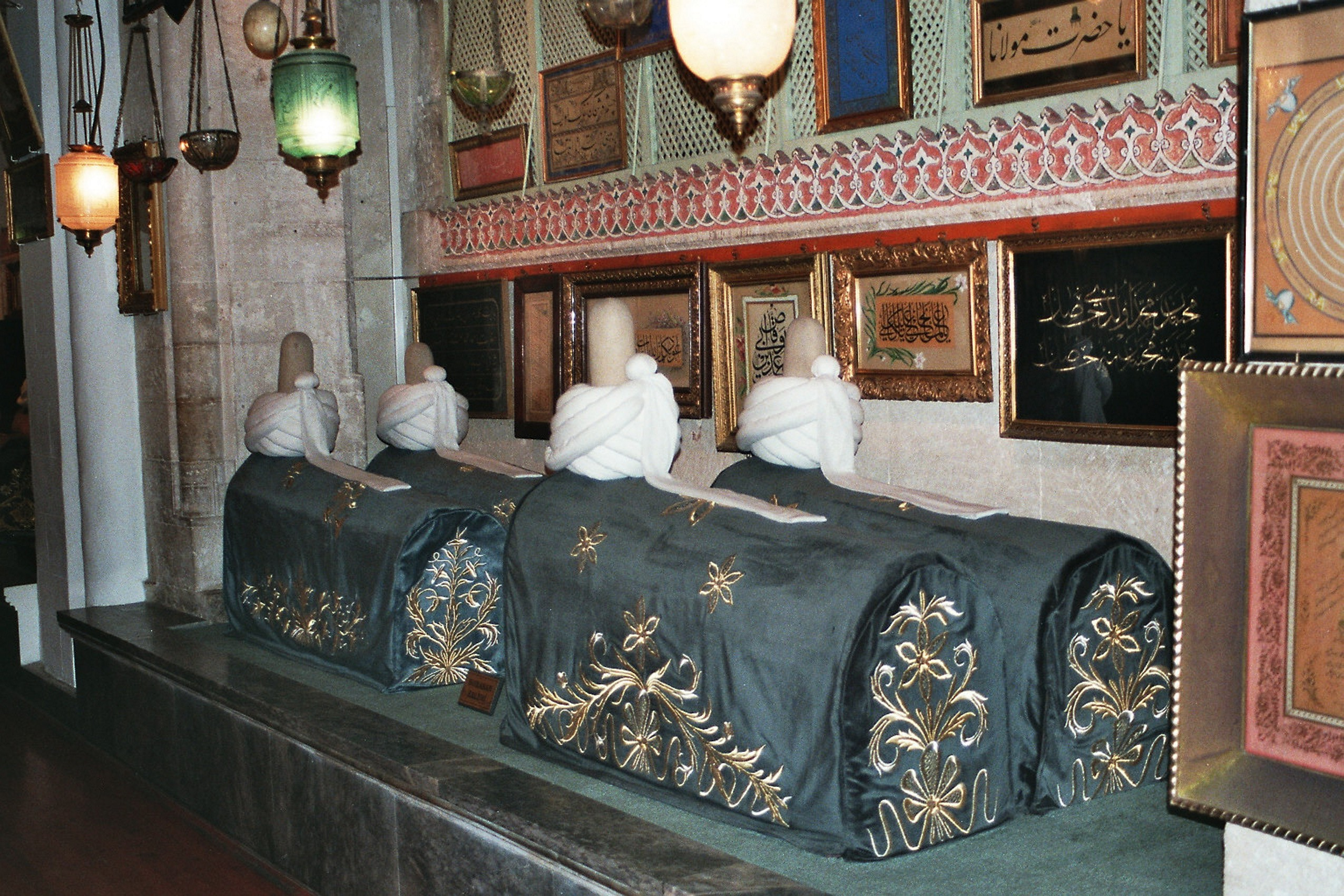 Konya, Mevlana museum, inside